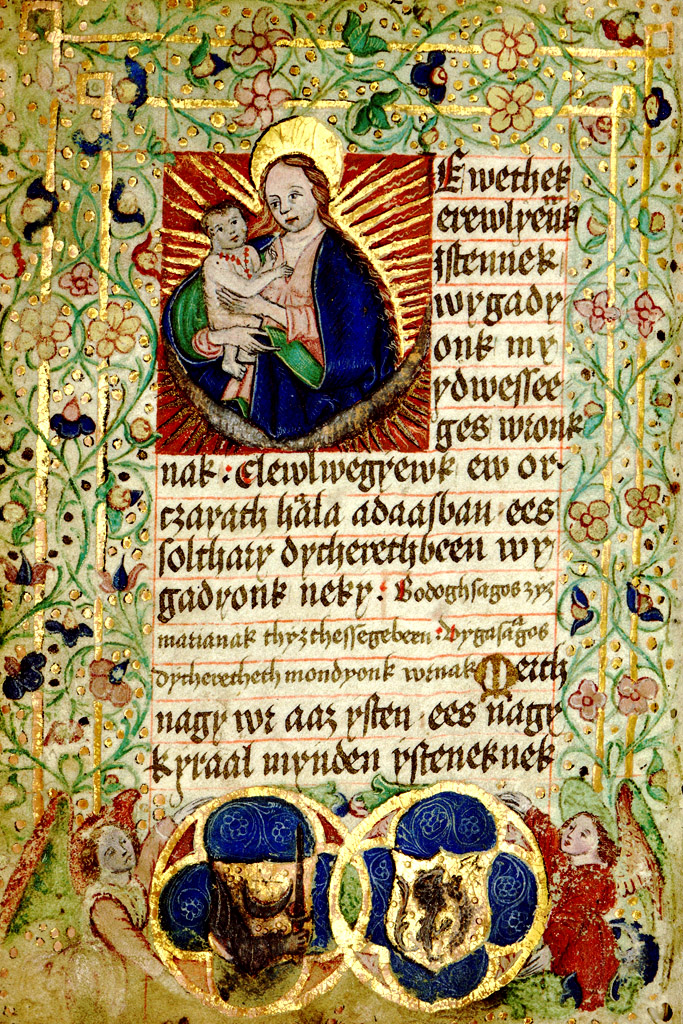 Festetics-kódex